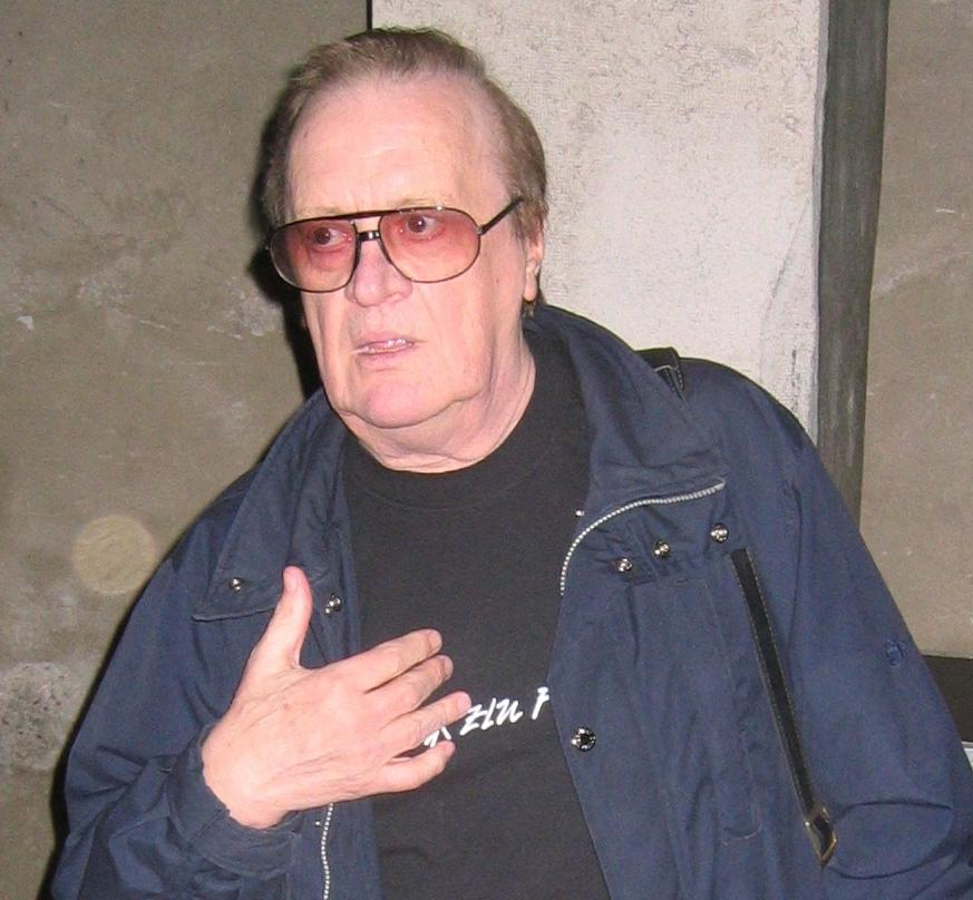 Arsen Dedić, croatian writer, poet and singer (in Ljubljana 2006) photo:Ziga 21:18, 11 June 2006 (UTC)